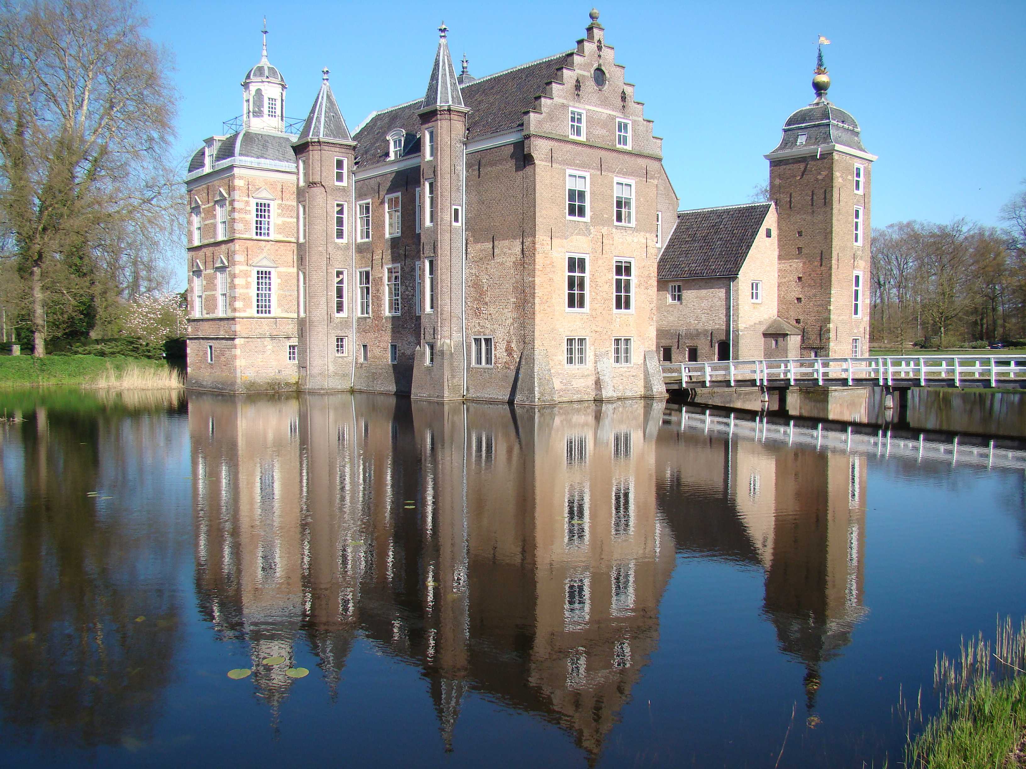 Castle of Ruurlo, Netherlands